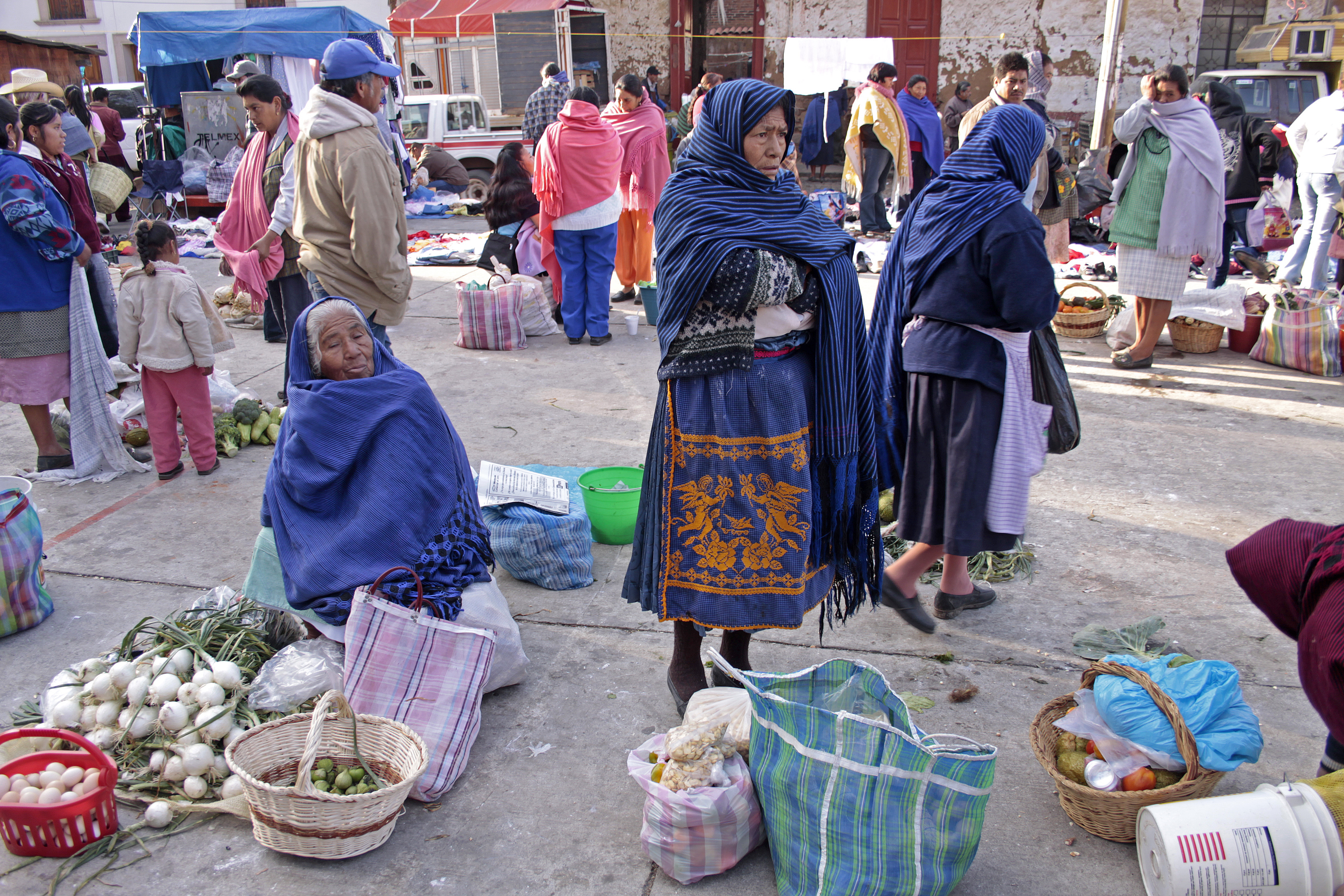 Bartering at the local market, Pátzcuaro, Michoacán, México This photo has been taken in the country: Mexico